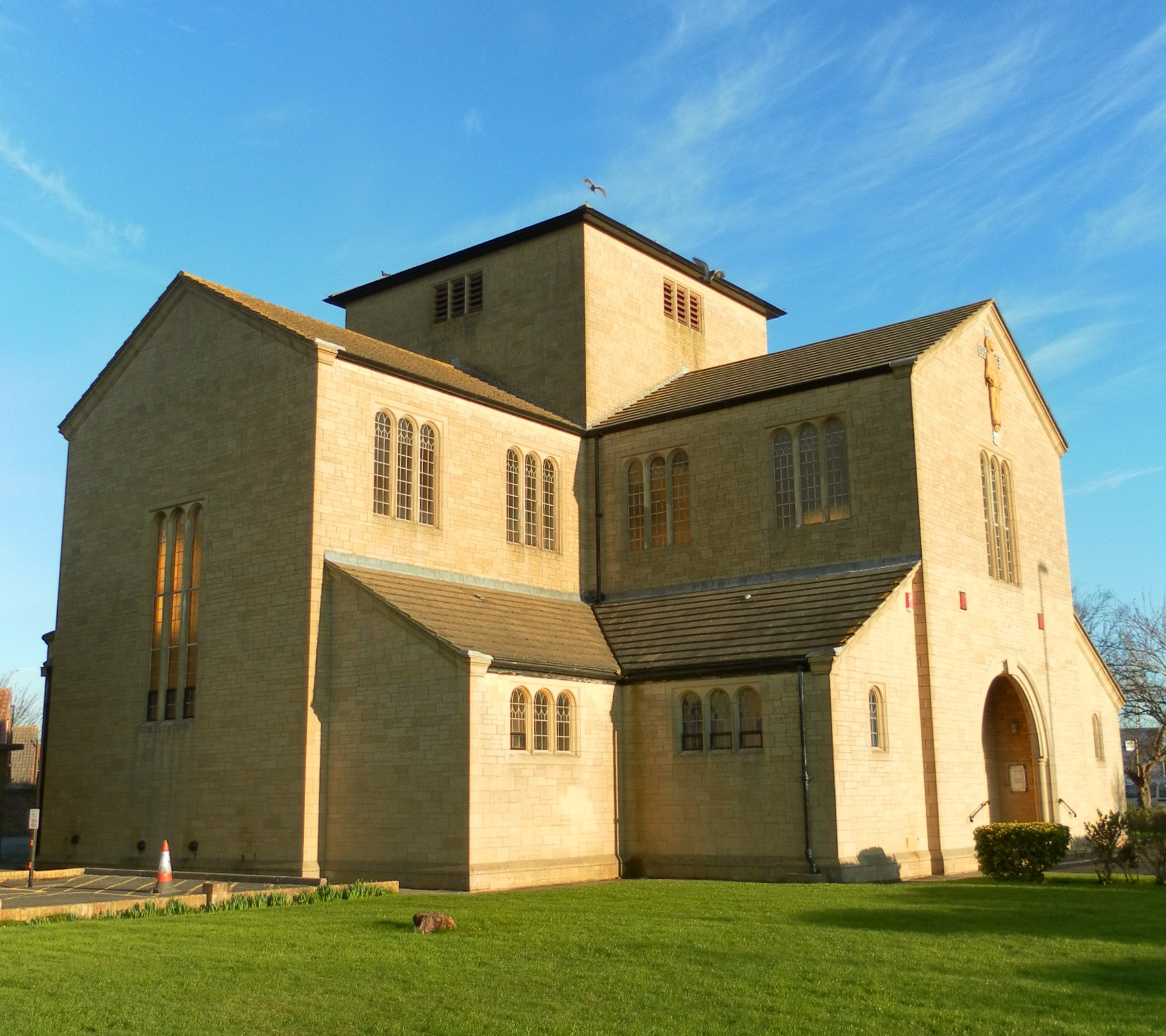 St Charles Borromeo Church, Chesswood Avenue, East Worthing, Borough of Worthing, West Sussex, England. A Roman Catholic church (one of four in the Borough) completed in 1962.